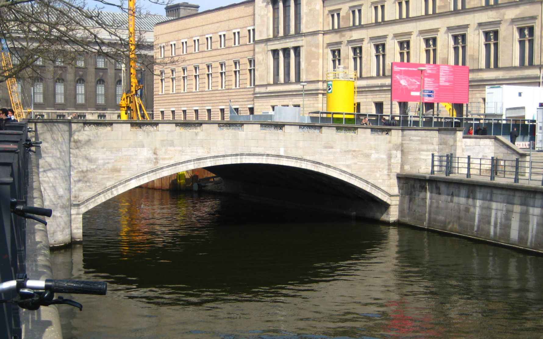 Eiserne Brücke (Iron Bridge) at Museum Island in Berlin-Mitte with Neues Museum in the brackground. It was built from 1914 to 1916 to a design by Walter Koeppen. The bridge has been designated as a historic landmark.